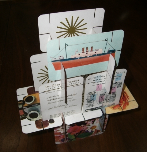 House of Cards - card game designed by Charles Eames. German edition published by Otto Maier Verlag